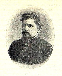 Afinogen Jakowlewitsch Antonowitsch (1848—1917)